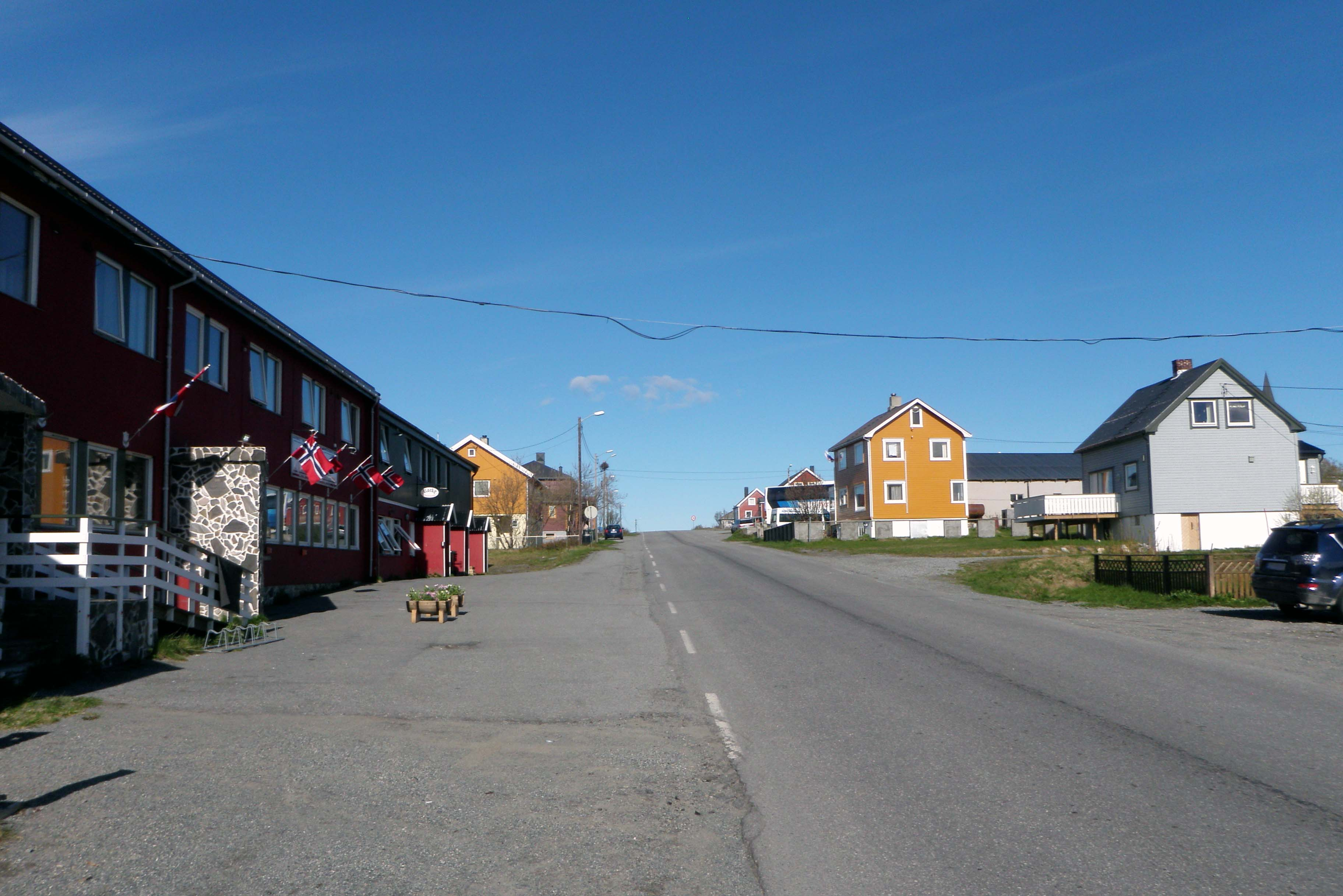 Main street (Storgata) in the village of Hasvik, in Hasvik, Finnmark, Norway. Hasvik Hotel on the left.